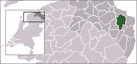 Locator map of Dutch municipalities in Groningen (LocatieScheemda.png)